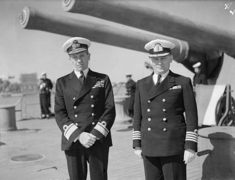 On Board the Greek Cruiser Hhms Giorgios Averoff. 23 February 1943, Port-said, Rear Admiral a Sakellariou, Commander in Chief of the Royal Hellenic Navy Flies His Flag in the Cruiser Hhms Giorgios Averoff. Left to right: The Greek Commander in Chief, Rear Admiral A Sakellariou, KCB, with his Captain, Capt A Golemis on board his flagship HHMS GIORGIOS AVEROFF.